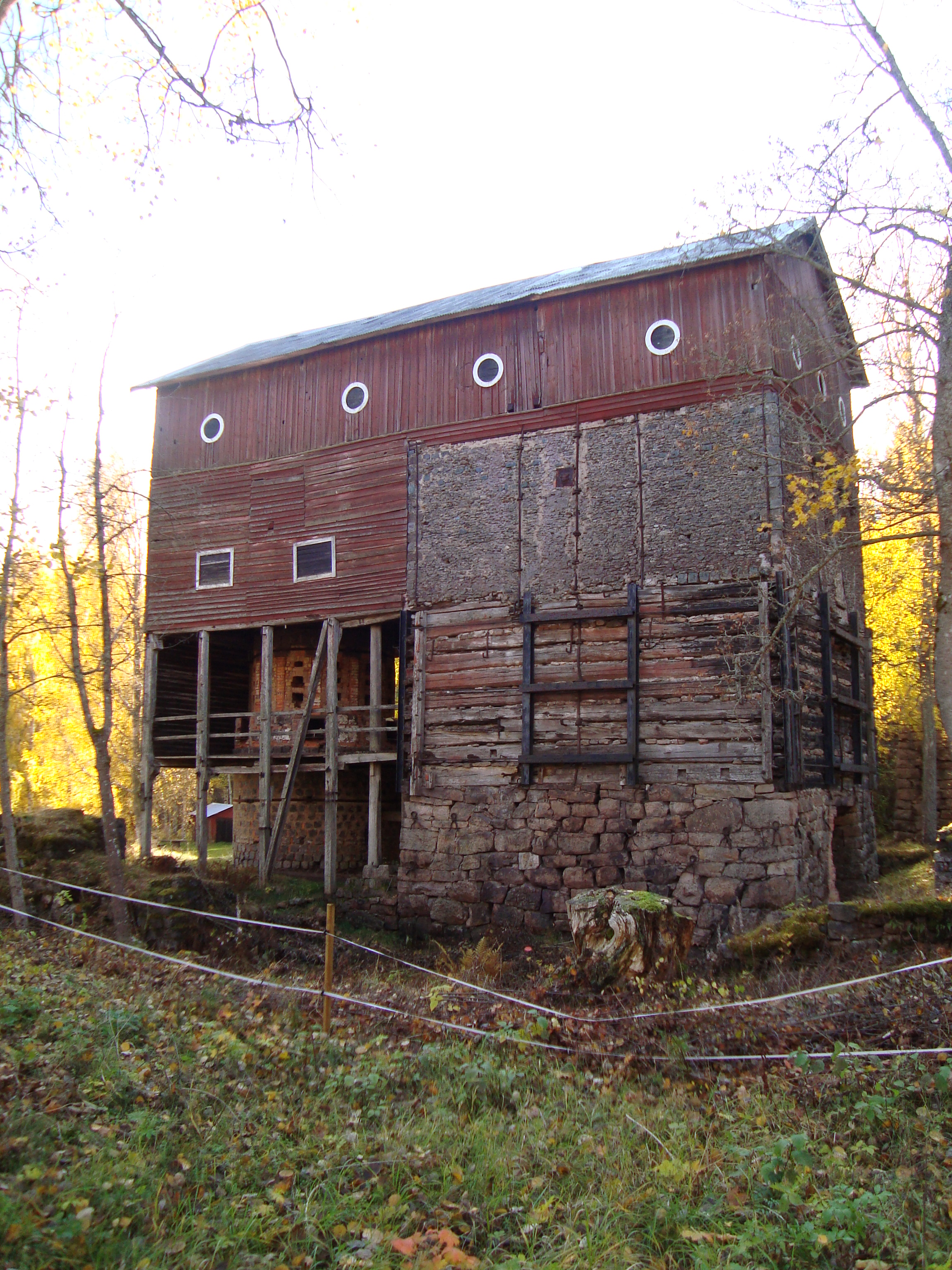 Blast furnace of Norn, Hedemora municipality, Sweden